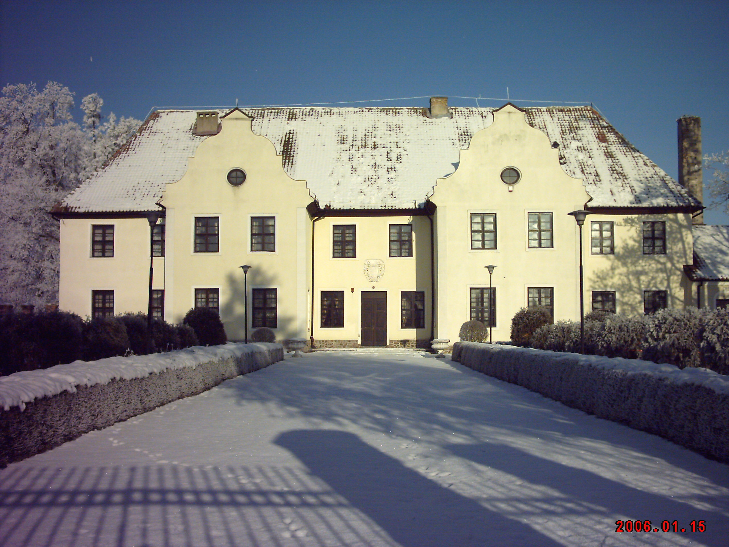 Tolko village (Poland) - the mansion of von Tettau family